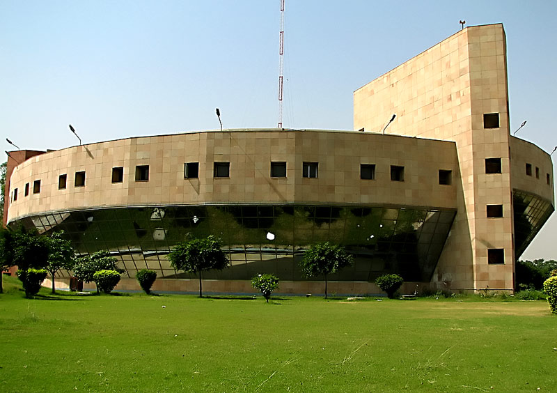 Delhi College of Engineering, Library building